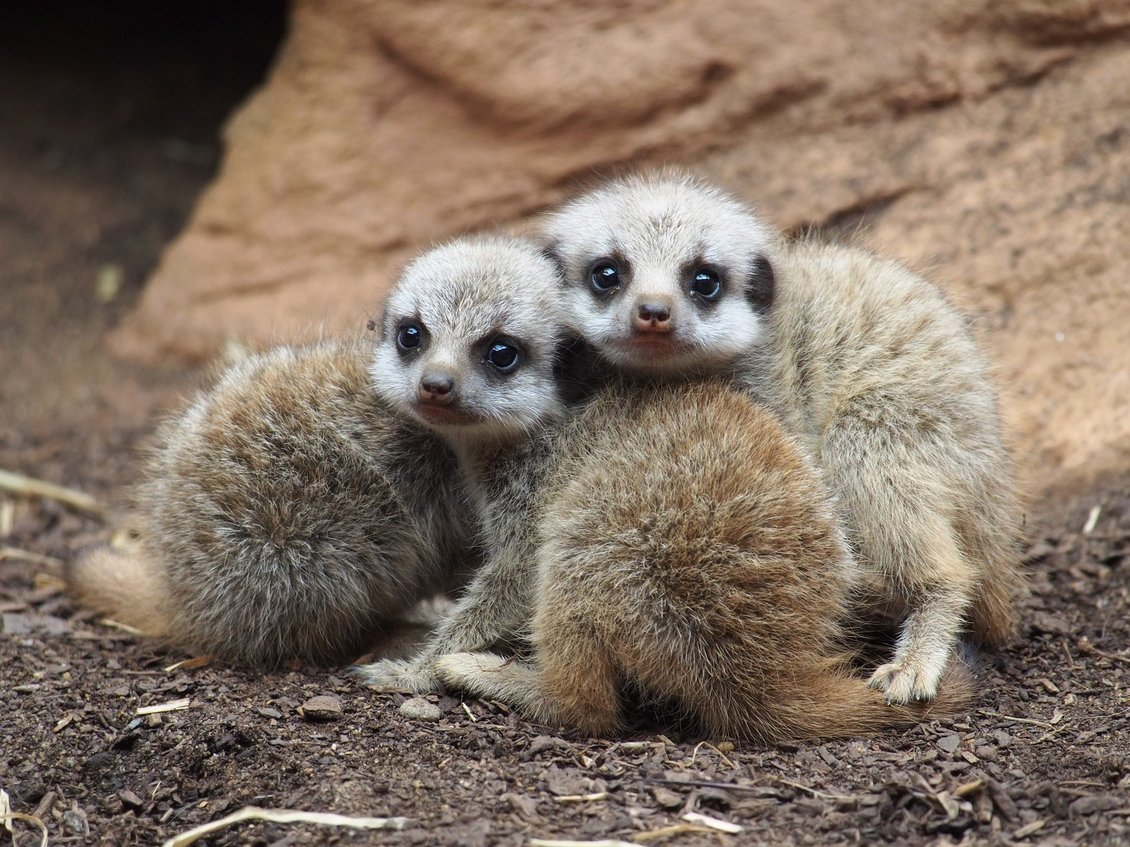 Juvenile Meerkats, Suricata suricatta, at Chester Zoo